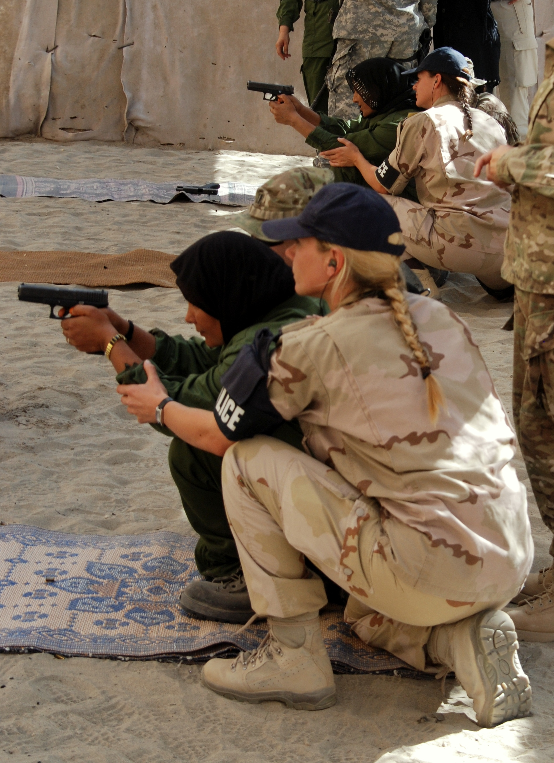 Eleven women from the Afghan Uniform Police in Kunduz go through security exercises before graduating from the two week course at the German Police Training Center in Kunduz Province, Afghanistan.